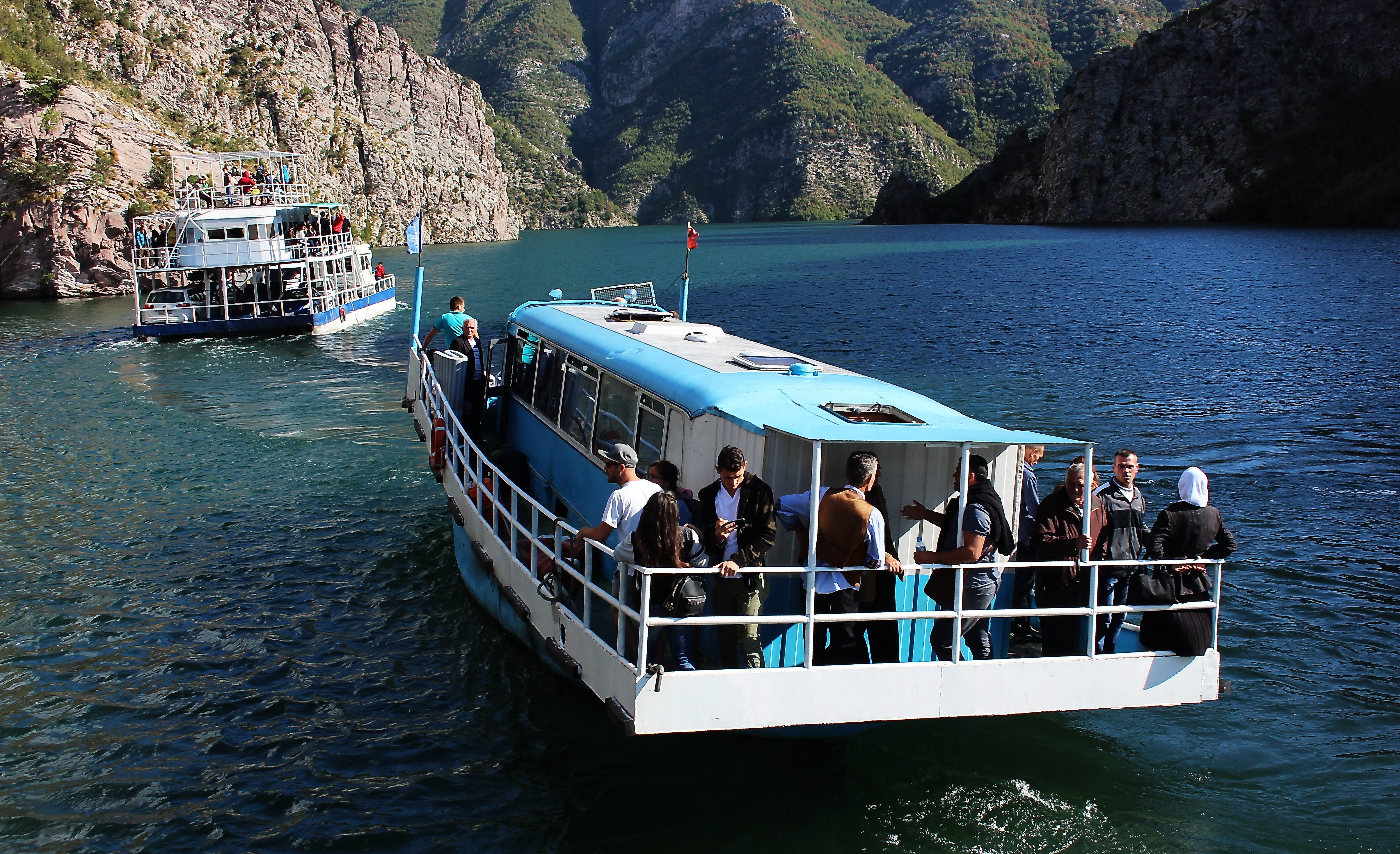 Ferries on Lake Coman. Passenger ferry in the foreground - car ferry in the background.